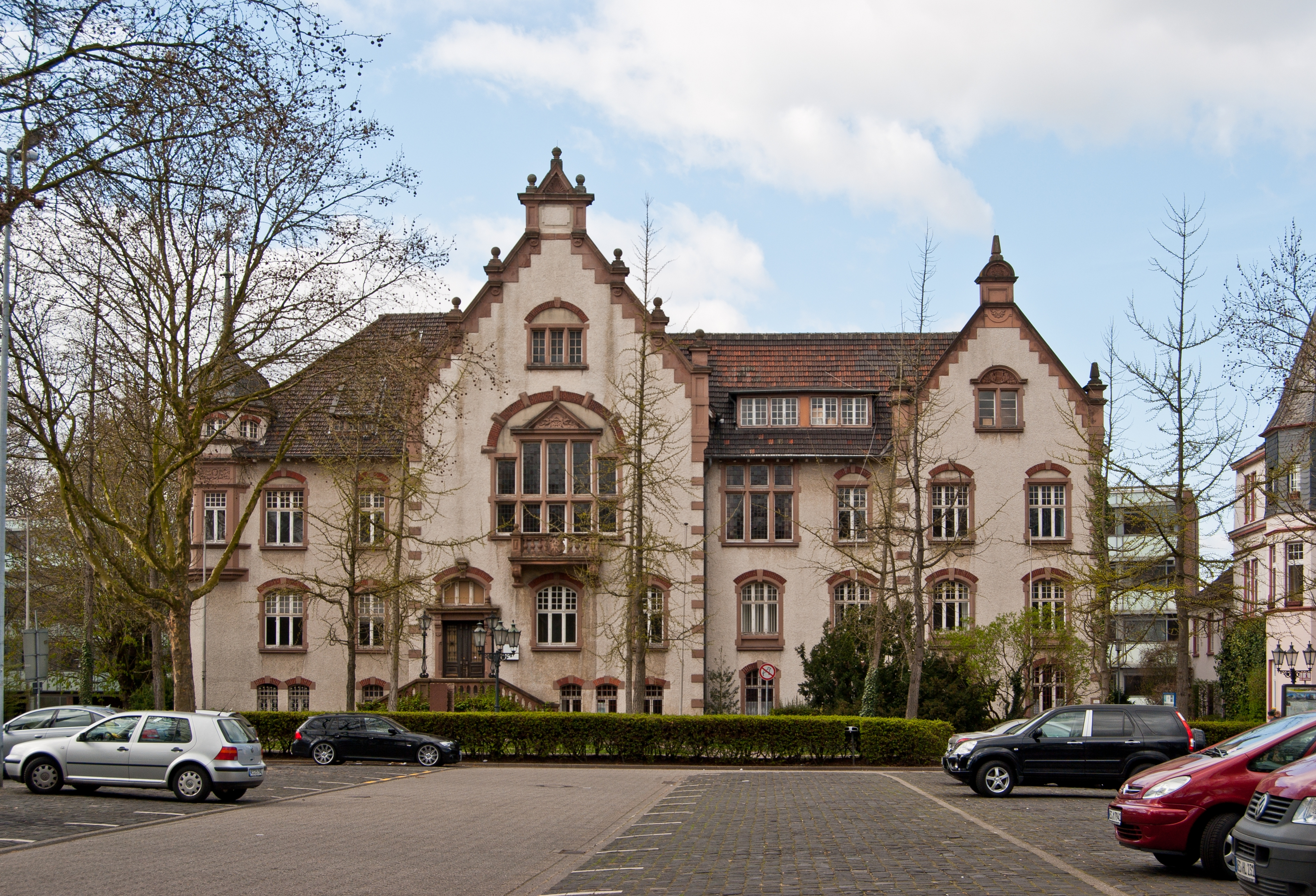 Moers (North Rhine-Westphalia, Germany) – Kastell square – former administration building “Kreisständehaus” (built in 1898–1900, also known as Old District Administration and the former adult education center) This image shows a heritage building in Germany, located in the North Rhine-Westphalian city Moers (no. 36). This photograph was taken with a Nikon D3000